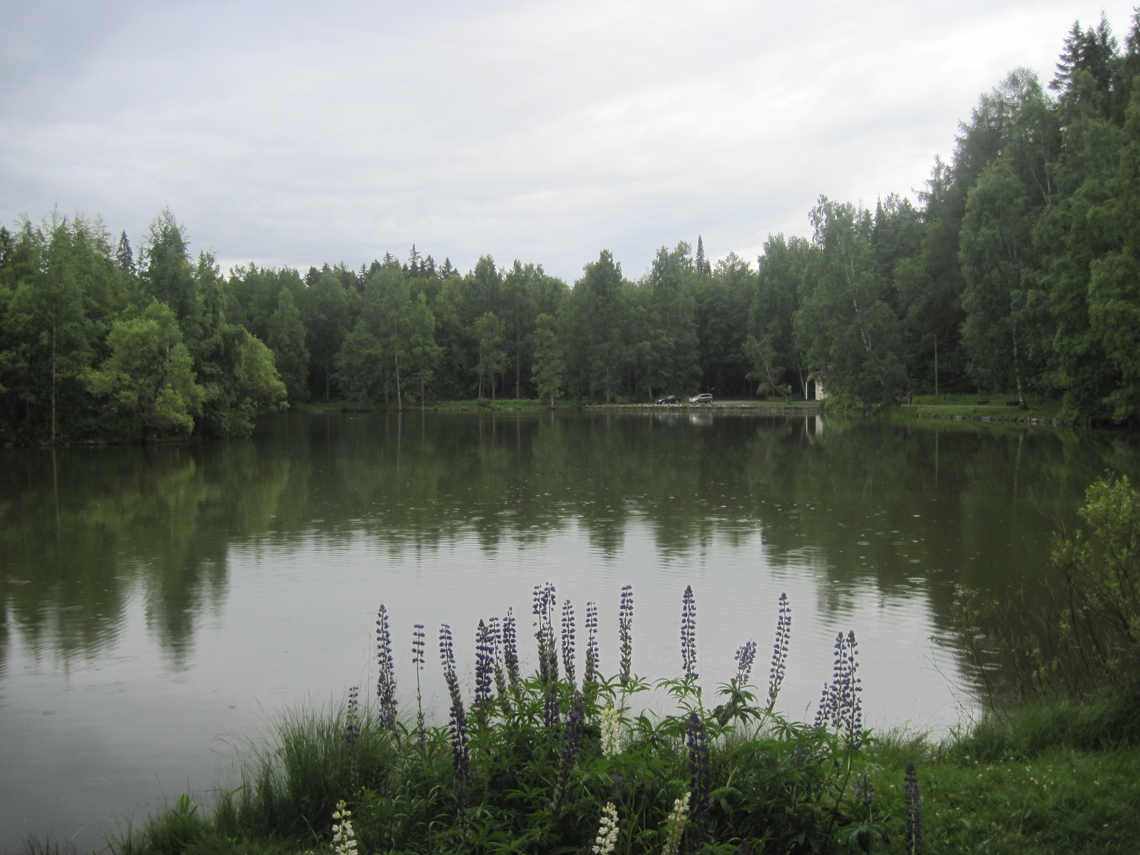 Joutsenlampi (Swan Lake) at Aulanko, Hämeenlinna, Finland